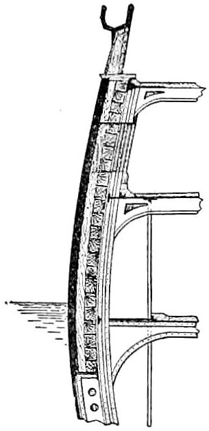 ARMOR OF AN EARLY IRON-CLAD, H. M. S. BLACK PRINCE, SISTER SHIP TO WARRIOR.